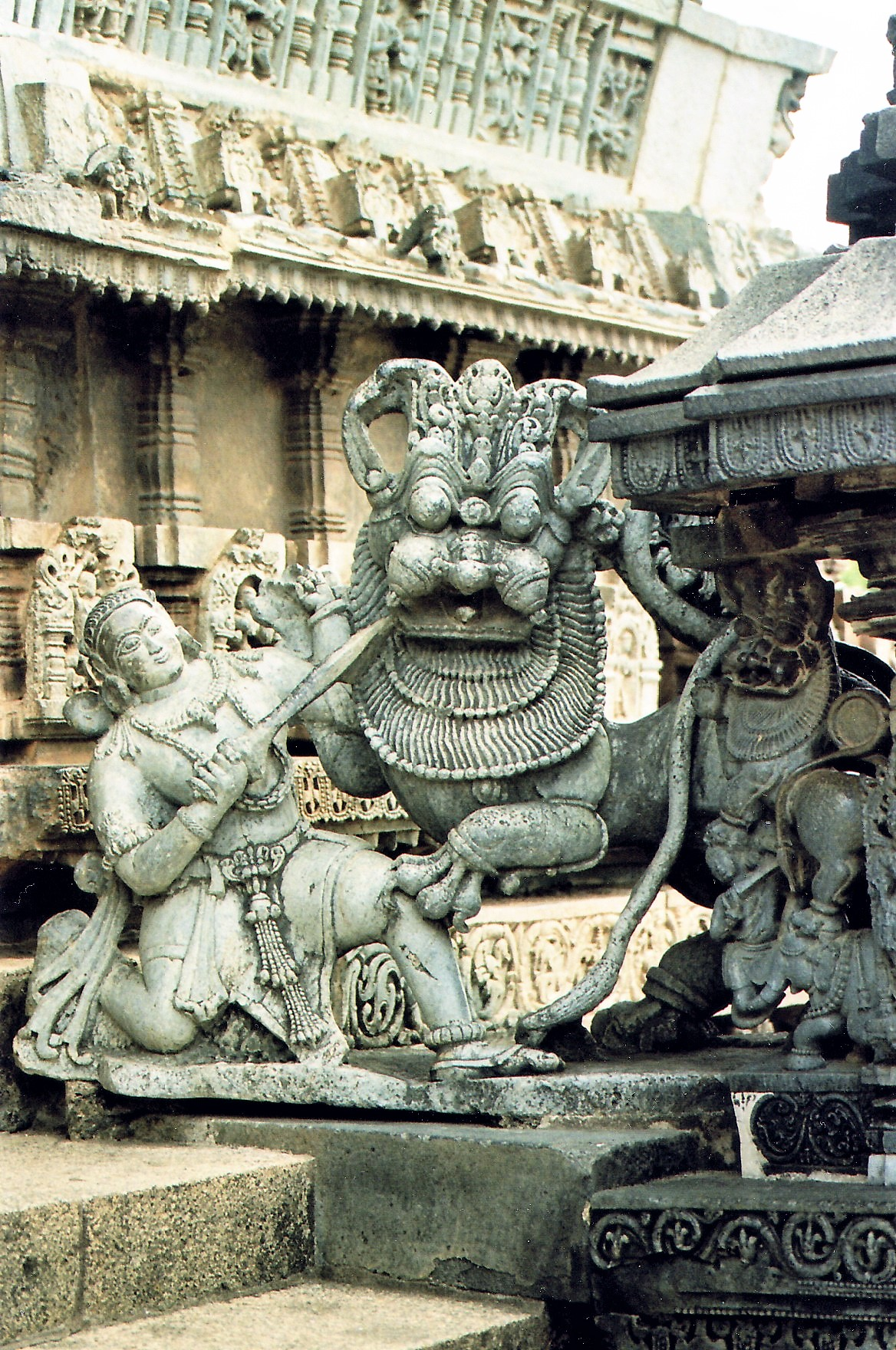 Photograph taken by Dineshkannambadi in at Chennakesava Temple in Belur, Karnataka, India, June 2006 - Dineshkannambadi